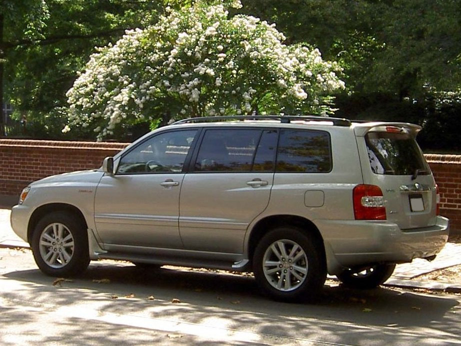 The first generation of Toyota Highlander, photographed in Philadelphia, Pennsylvania, U.S.A.